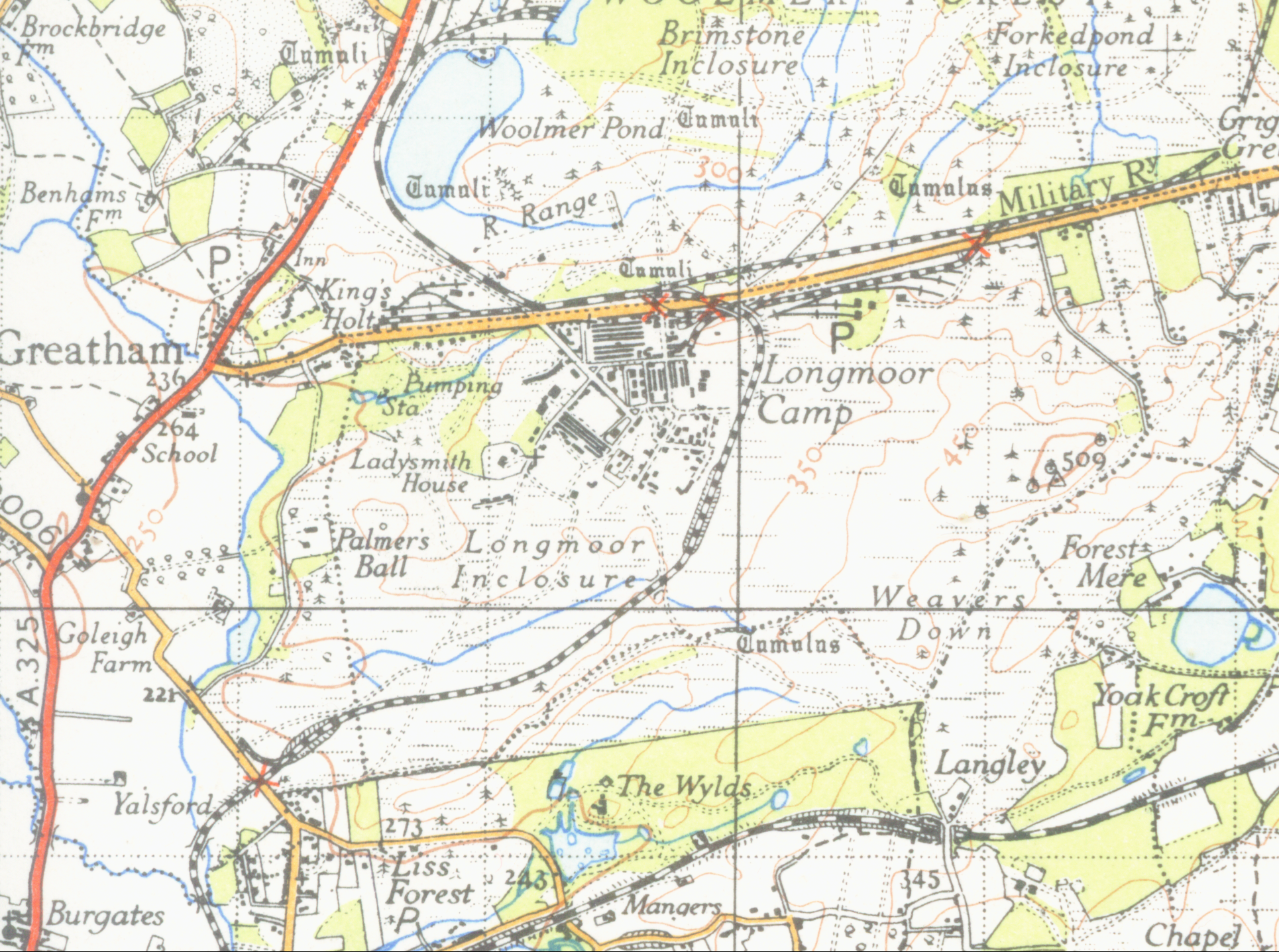 map of Grays 1 inch to the mile scale scanned at 600 DPI